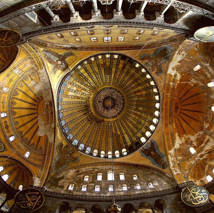 Hagia Sophia Constantinople